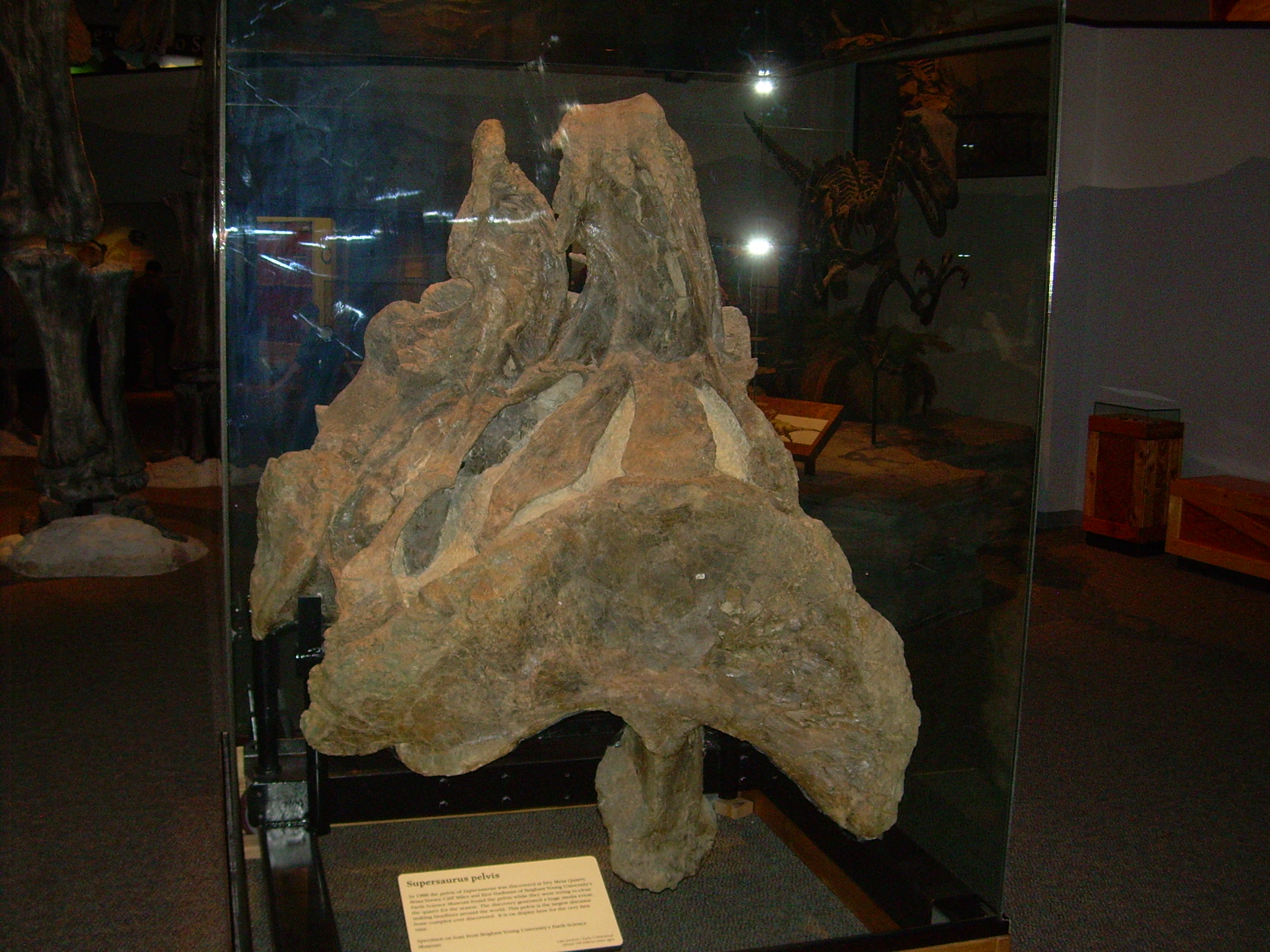 Photograph of a fossil cast of a Supersaurus vivianae pelvis taken at the North American Museum of Ancient Life.